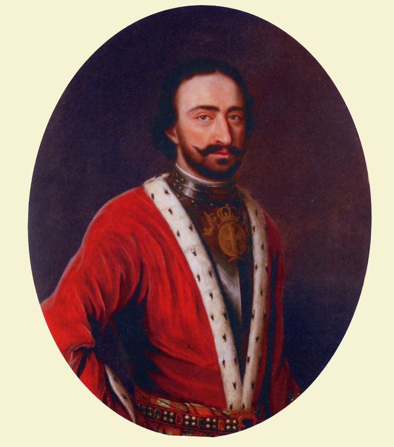 Prince Alexander of Imereti, Georgia.